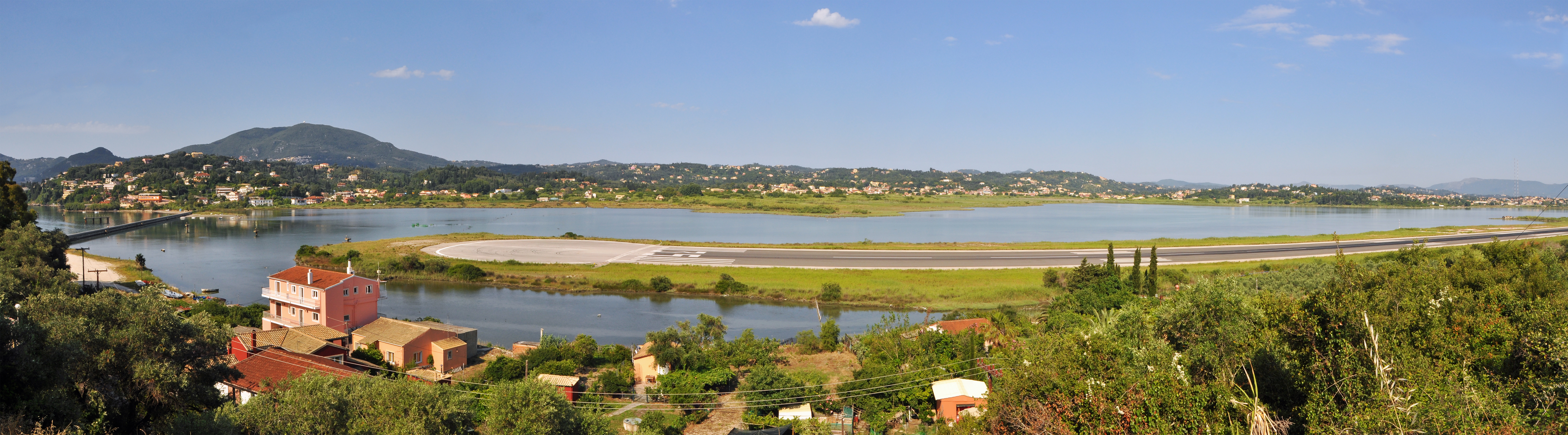 Corfu airport (Greece): panoramic view of the runway